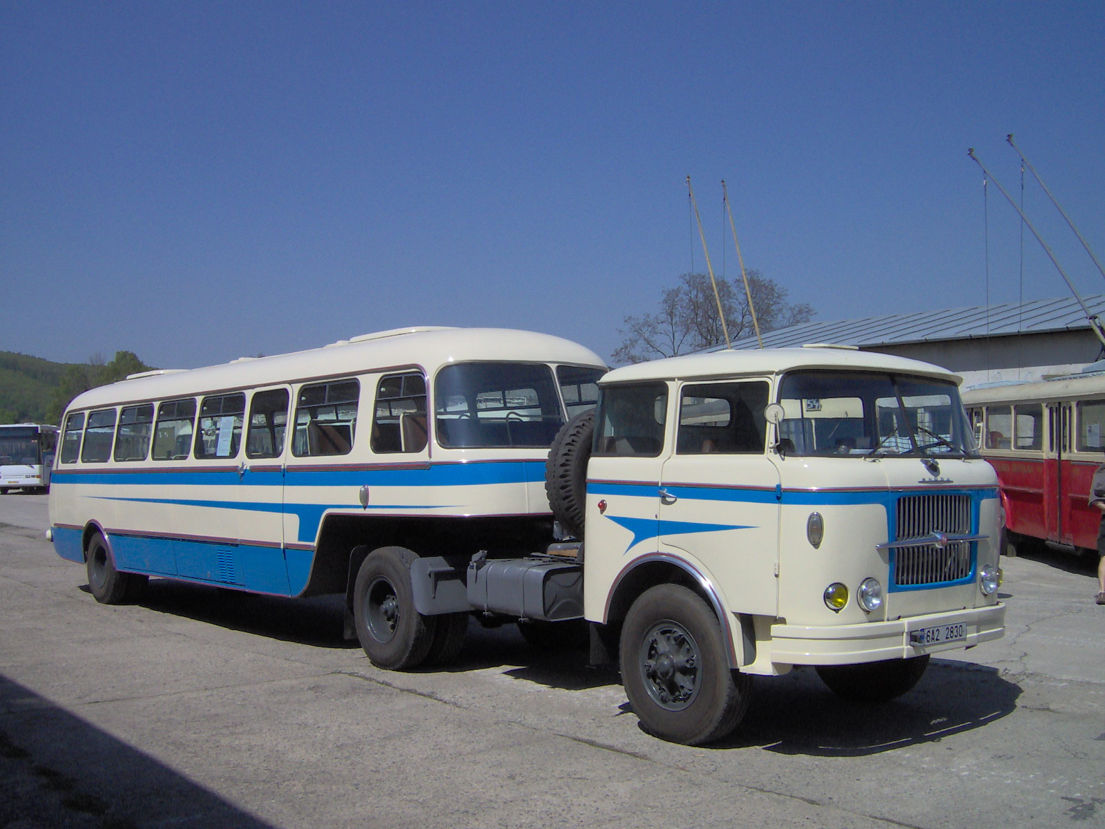 Historical truck Škoda 706 RTTN with trailer car Karosa NO 80 (reg. 4S1 7600) in Brno, Czech Republic. Trailer bus built 1958, ČSAP Nymburk operator.